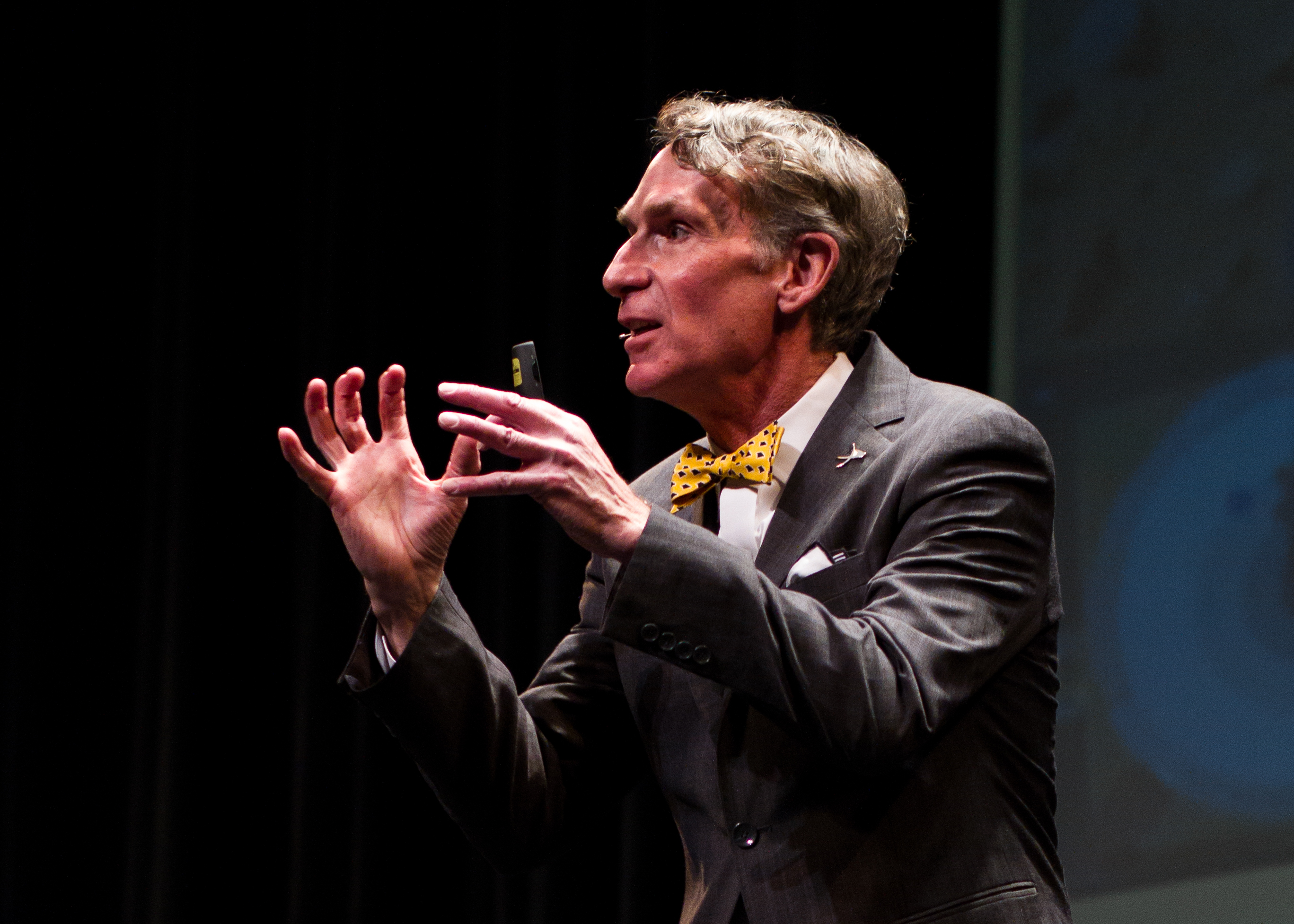 Bill Nye speaks at Decoding Science 2014 hosted by the University of Missouri. "[Speaking of the MarsDial] It says, 'to those who visit here'—which is inherently optimistic! Somebody is going to come here, right?—'to those who visit here, we wish a safe journey and the joy of discovery.' And that my friends is the essence of this business. That is the essence of science."